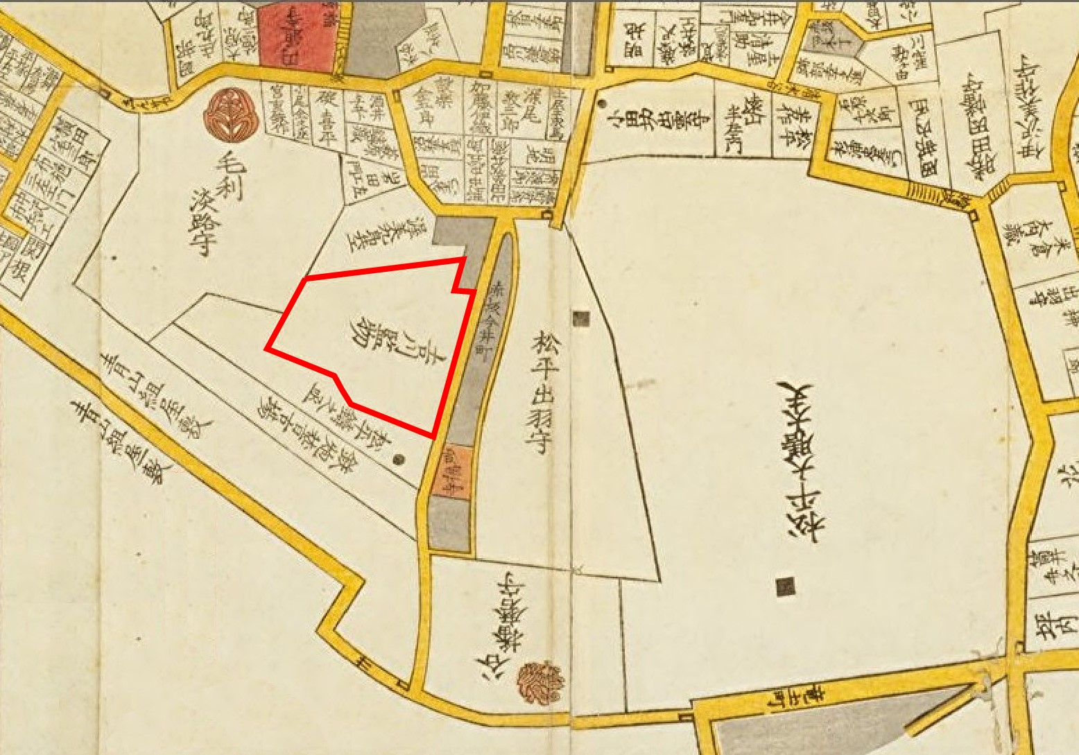 Residence of Kikkawa clan at Edo